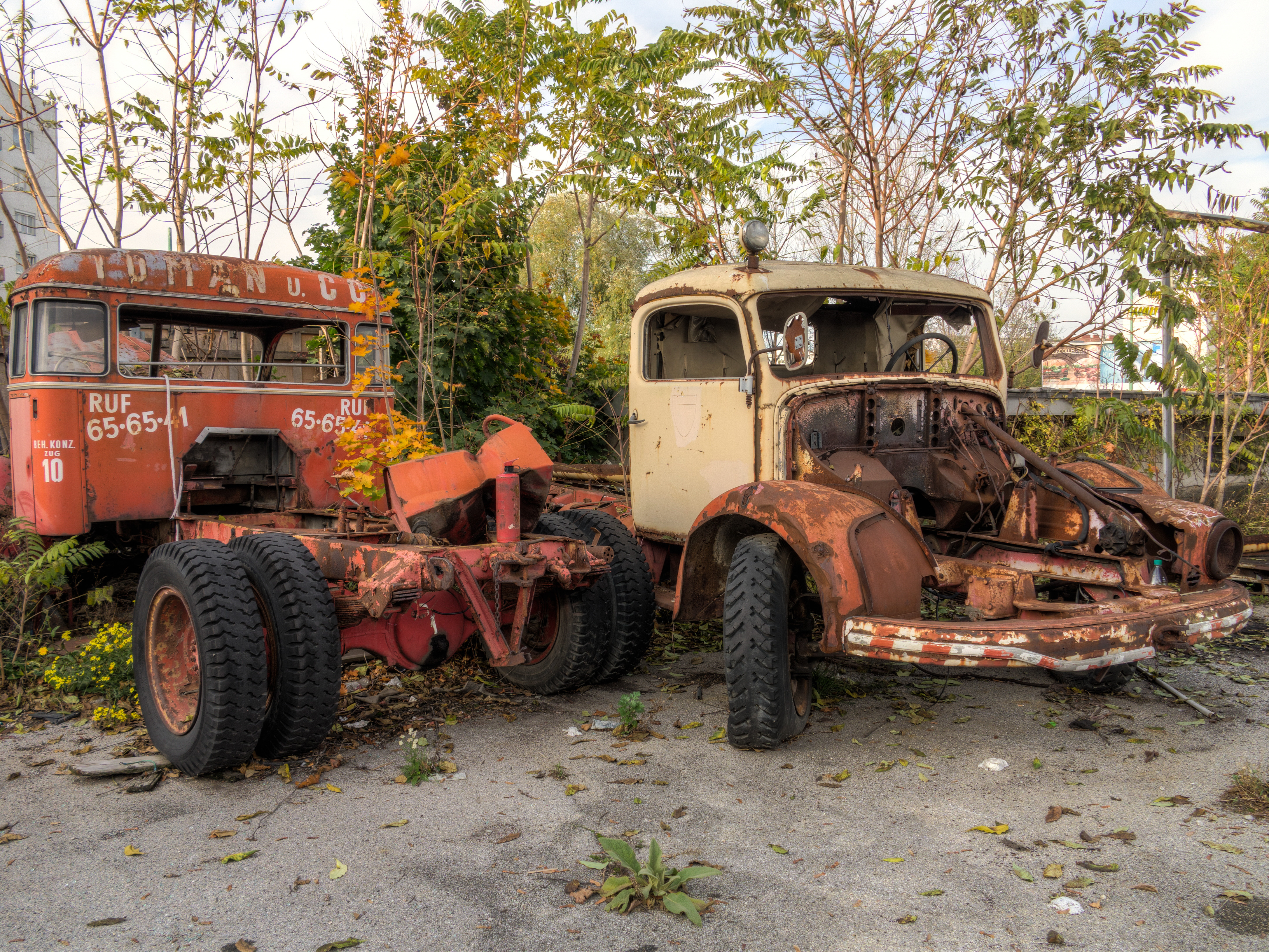 Discontinued truck tractors at the Northwest Railway Station in Brigittenau, the XX. district of Vienna / Austria / EU. Autumn atmosphere. The rusty damaged trucks were removed from the grounds in 2015.